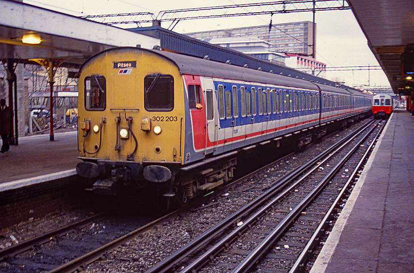 302 203, consisting of vehicles 75311+61122+70122+75236, in Network SouthEast livery at Barking on a Pitsea service in 1993. Scanned from a Fujichrome 35mm slide.